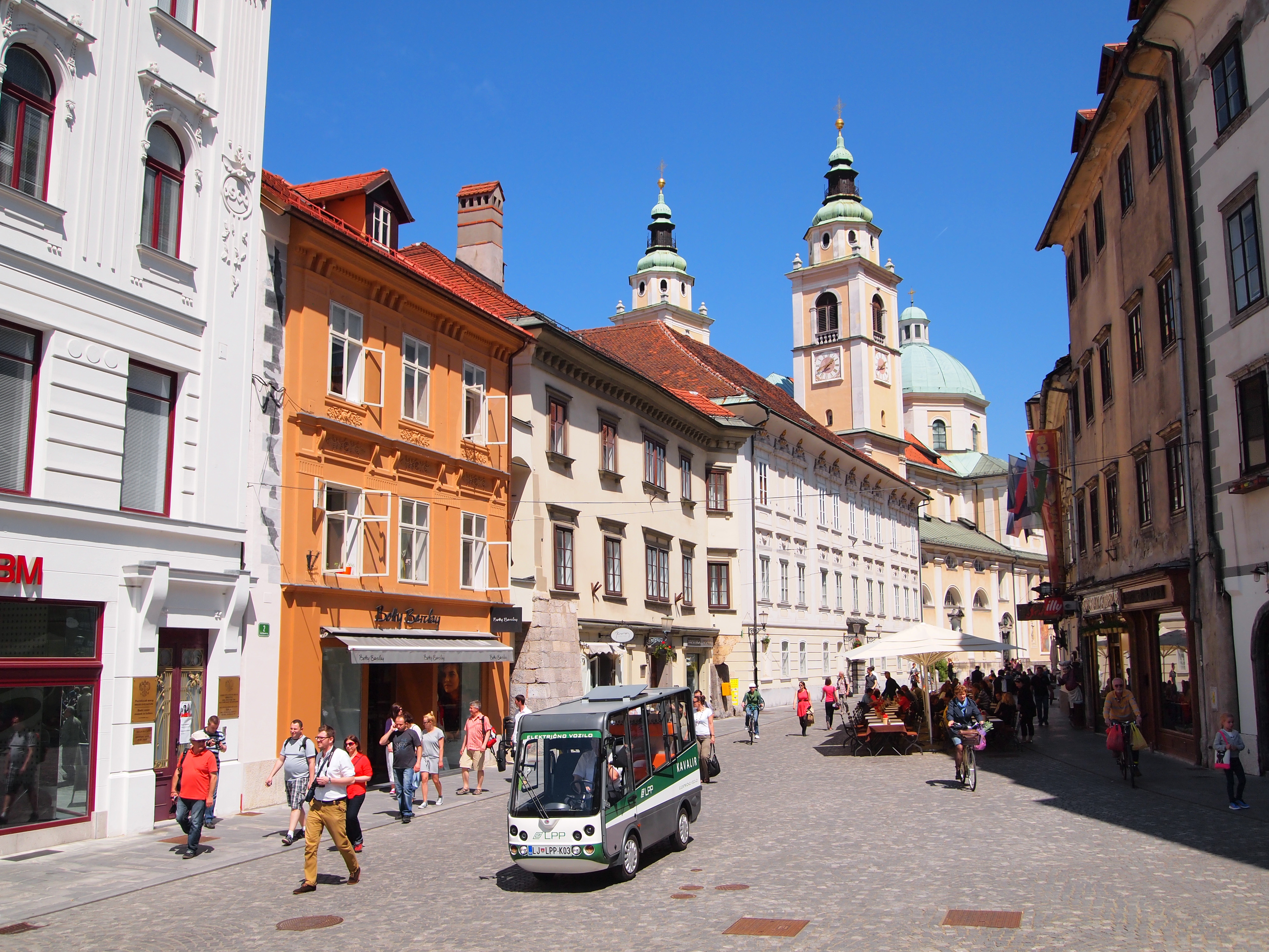 View on the street Ciril - Metodov trg, Ljubljana. This photograph was taken with an Olympus E-PL1